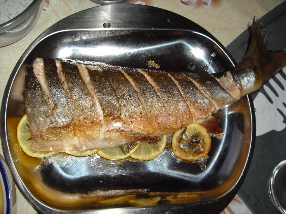 A cooked Röding